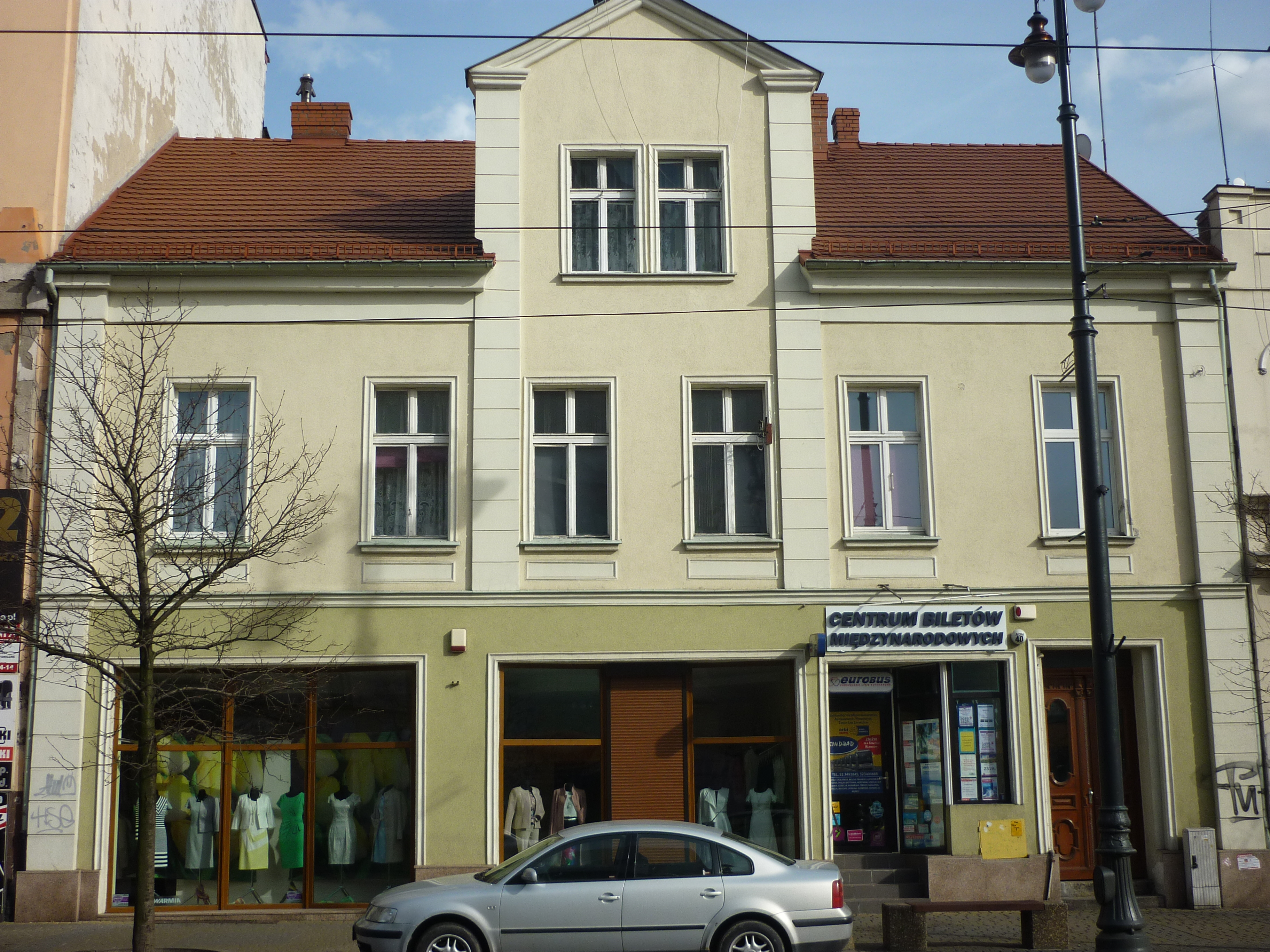 Gdanska 40 facade bydgoszcz